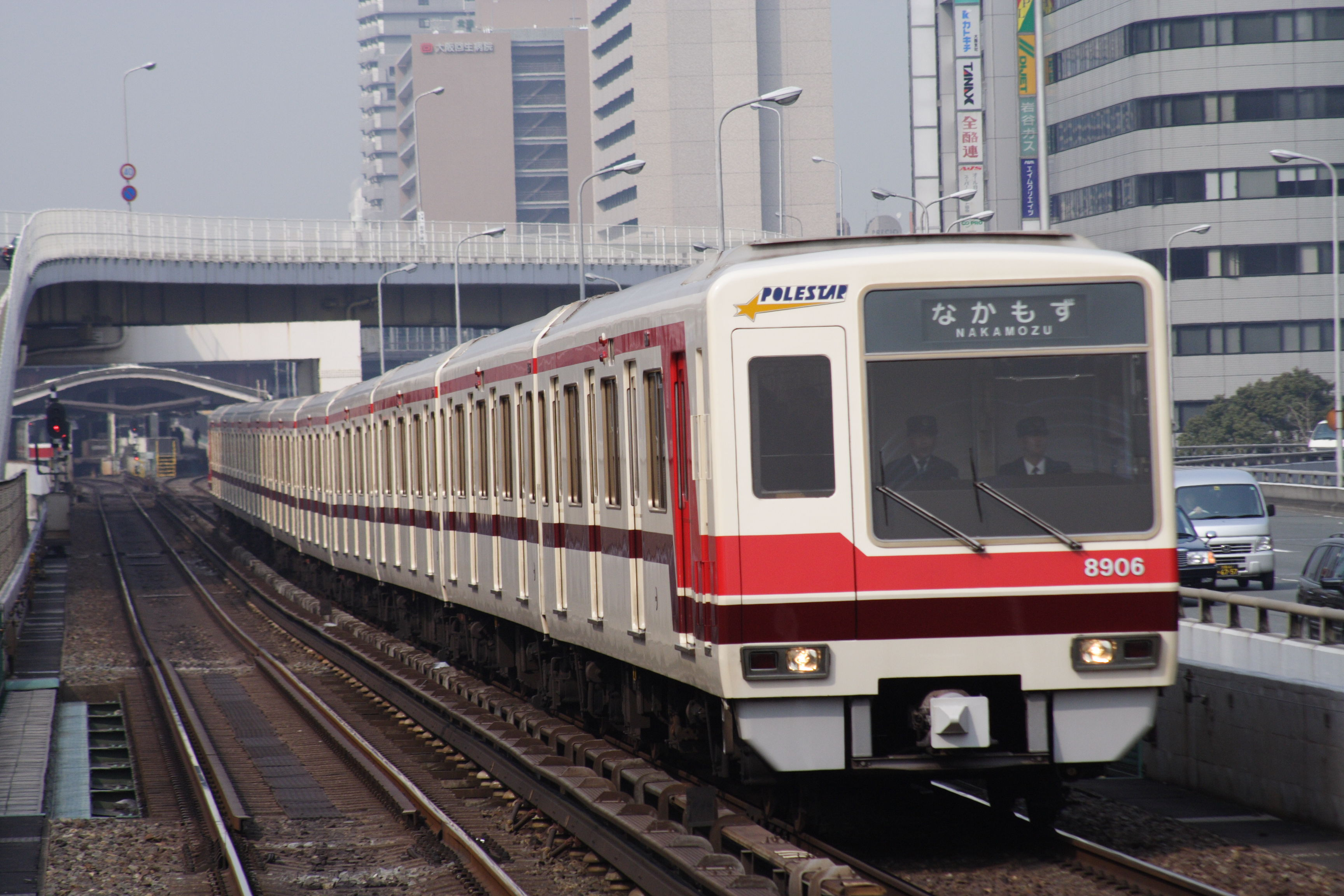 北大阪急行8000系/Series 8000 electric car of Kita-Osaka Kyuko Railway Co.Ltd. Japan